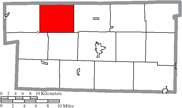 Map of the municipal and township boundaries of Holmes County, Ohio, United States, as of the 2000 census, with the location of Ripley Township highlighted. Township borders are shown only in unincorporated areas in order to differentiate incorporated and unincorporated areas more clearly.